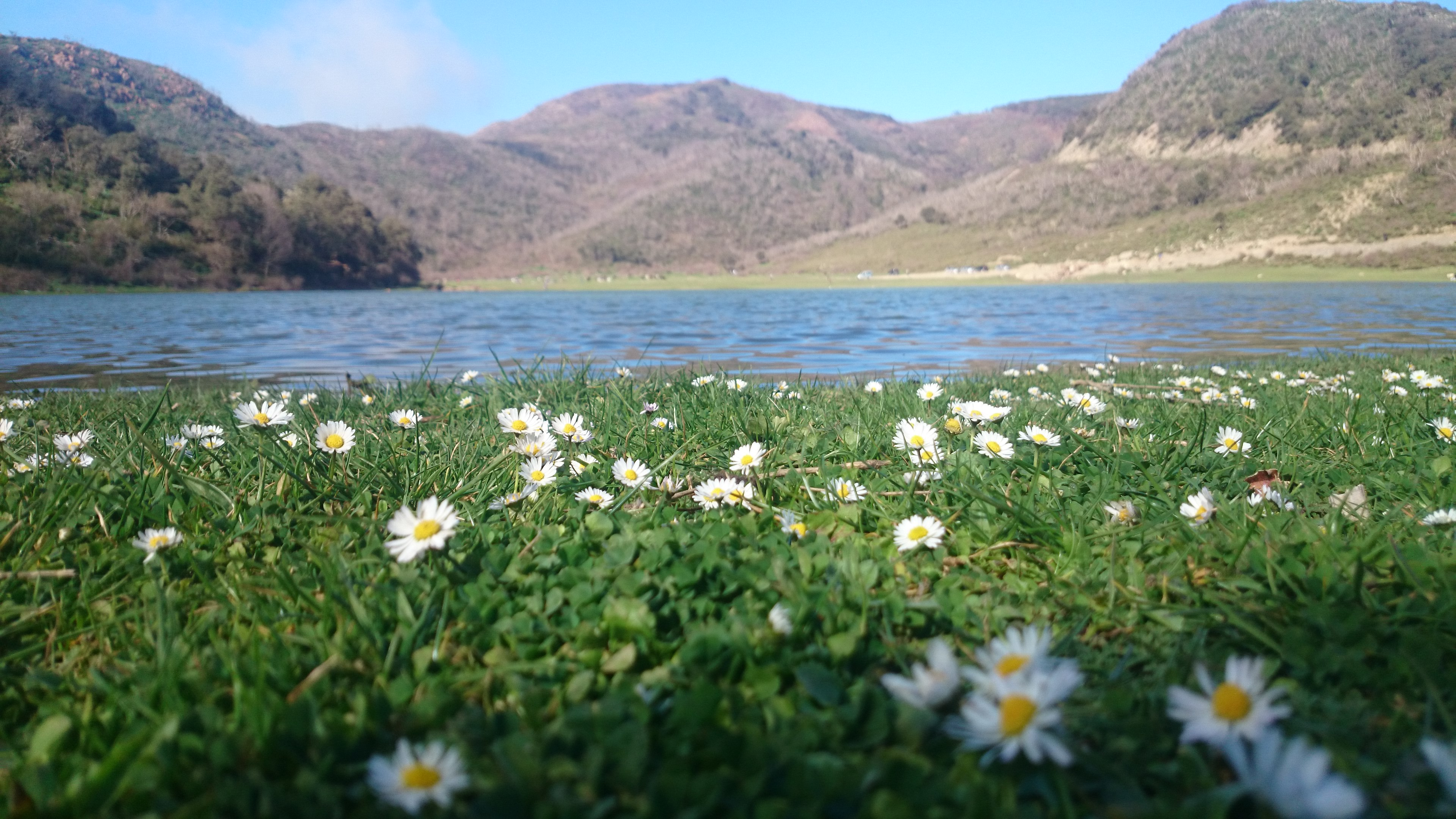 Lac Dhaya Tamezguida (1200m d'altitude) Medea Appareil : Sony Xperia Z1 (Aucune retouche)